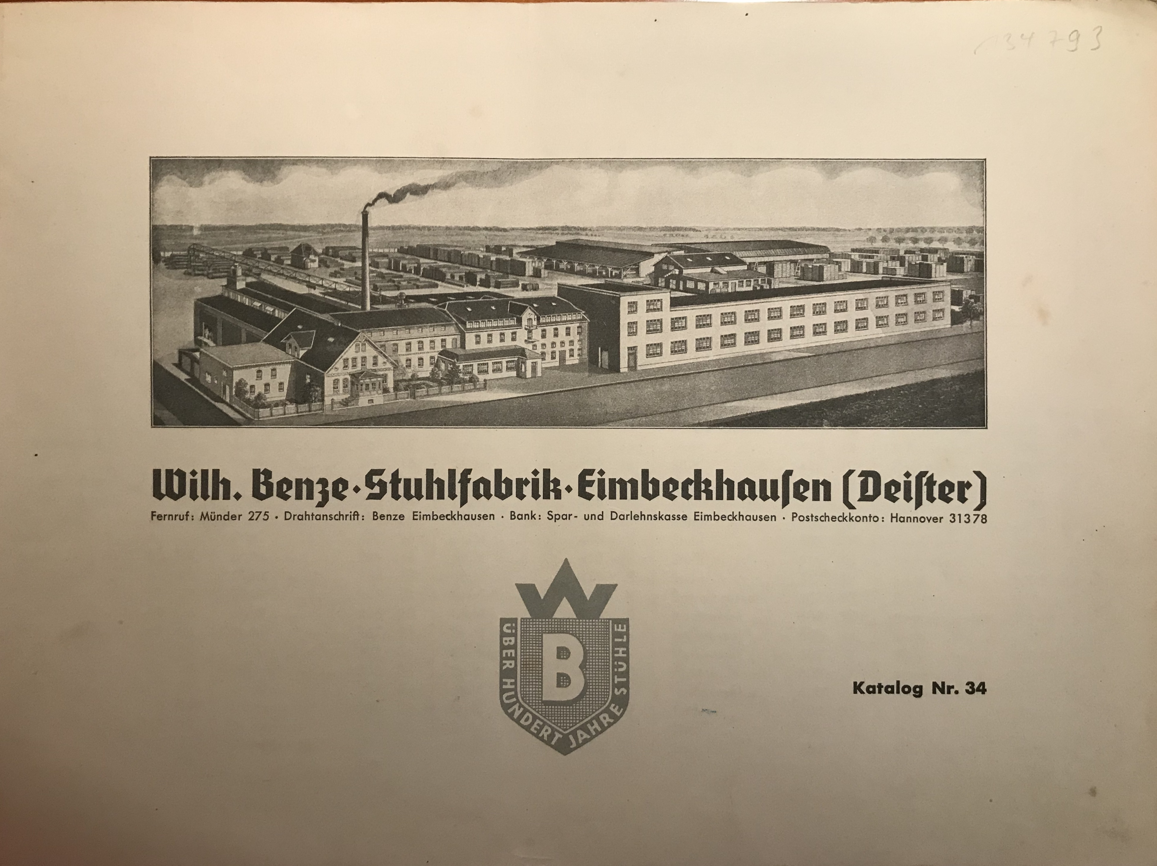 Stuhlfabrik Benze ca. 1932